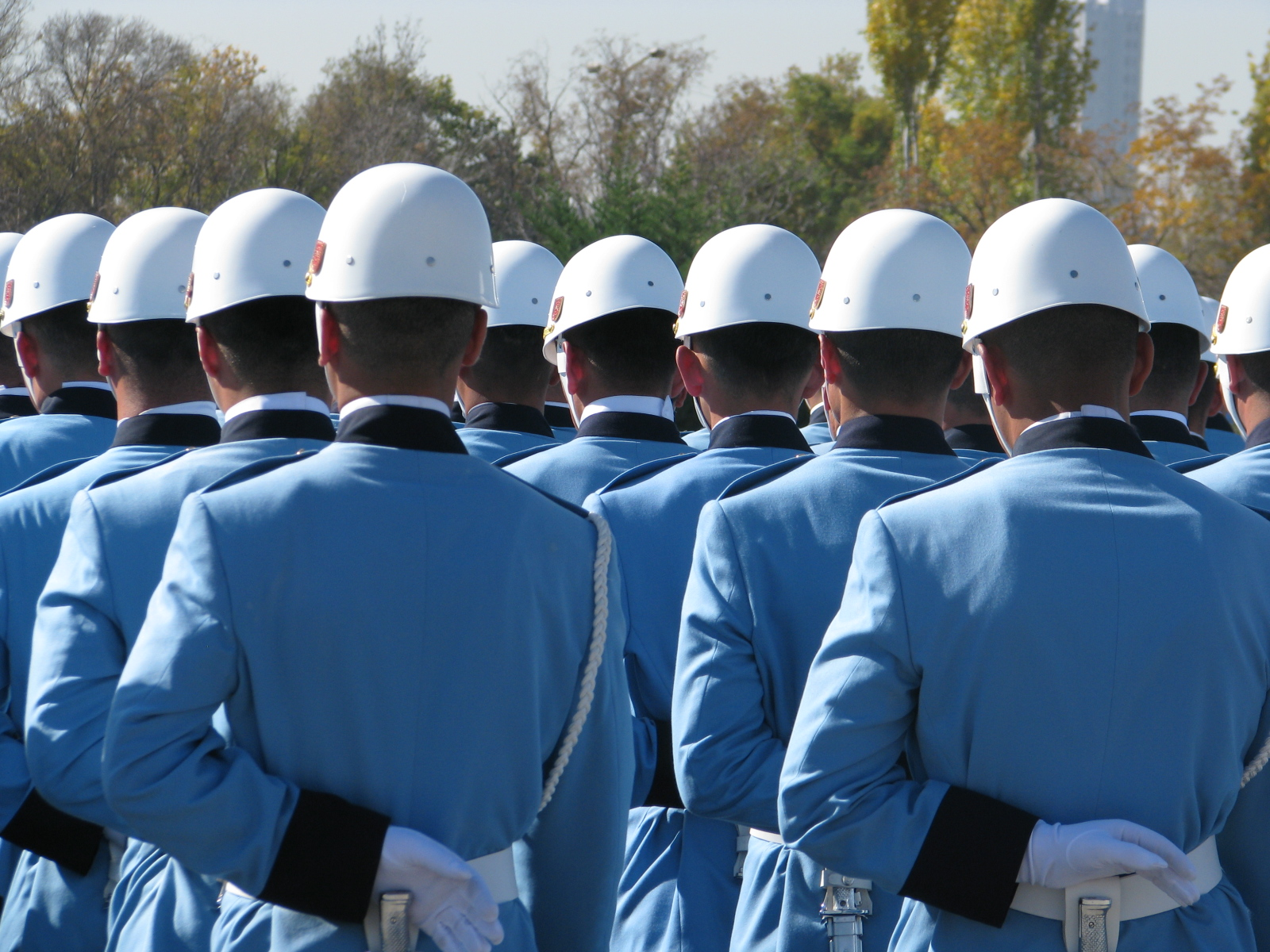 Turkish Presidential Guard Regimen